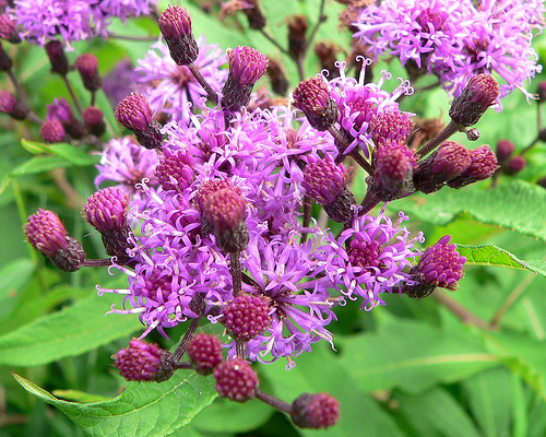 Vernonia altissima (Ironweed), Madison County, NC, USA